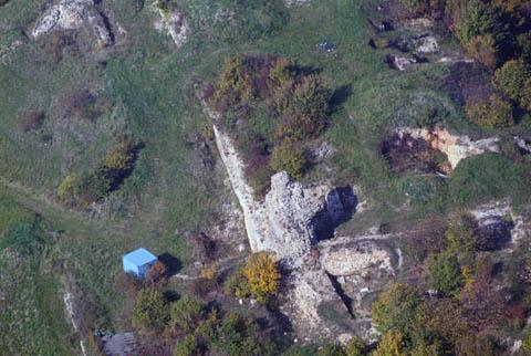 Hornstein, Austria, aerialphotography